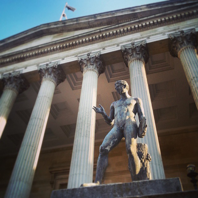 Wilkins Building, University College London.